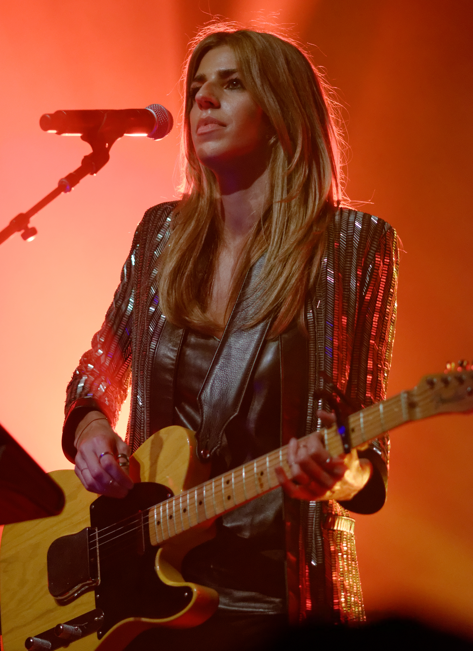 Brooke Fraser performing live at the Fonda Theatre in Los Angeles, California on Thursday January 29th, 2015. Part of Brooke's "Brutal Romantic" Tour.